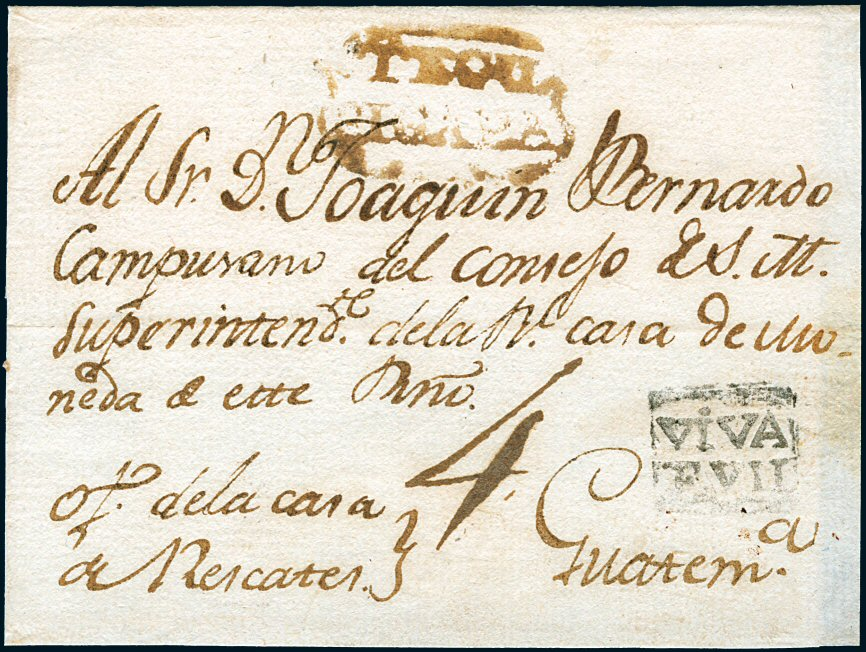 Honduras circa 1810 Tegucigalpa oval cancel on partial folded letter cover, "Viva/F VII" (for Ferdinand VII), manuscript "4" rate, addressed Superintendent of the mint in Guatemala.